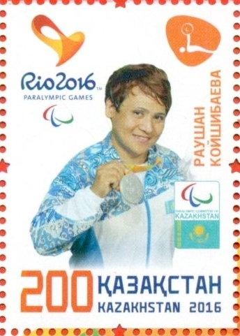 1031-1032. Sport” on the theme of “XV Paralympic Games in Rio de Janeiro